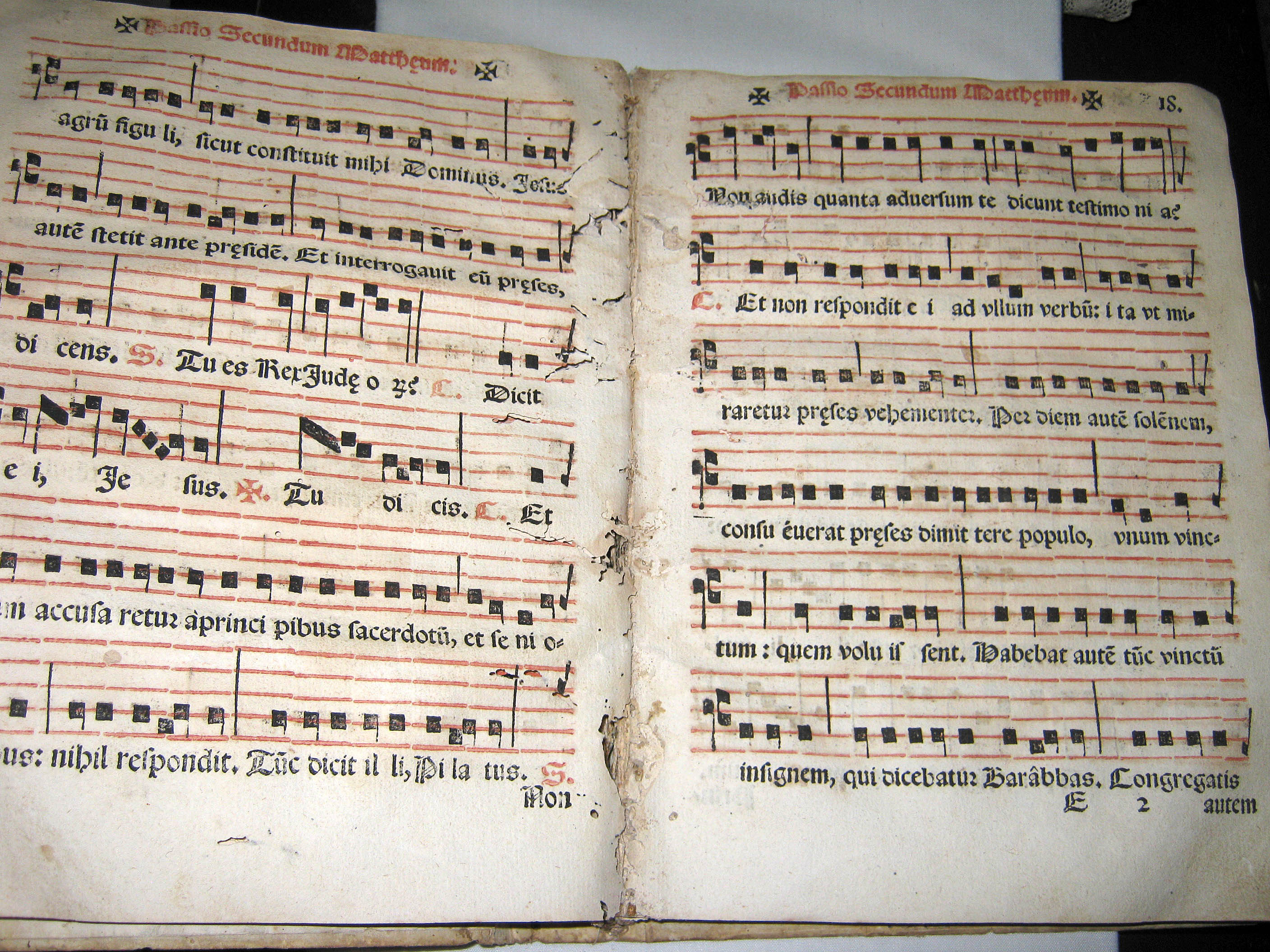 The book Quatuor Passiones Christi (The Four Passions of Christ), which was printed in 1604.